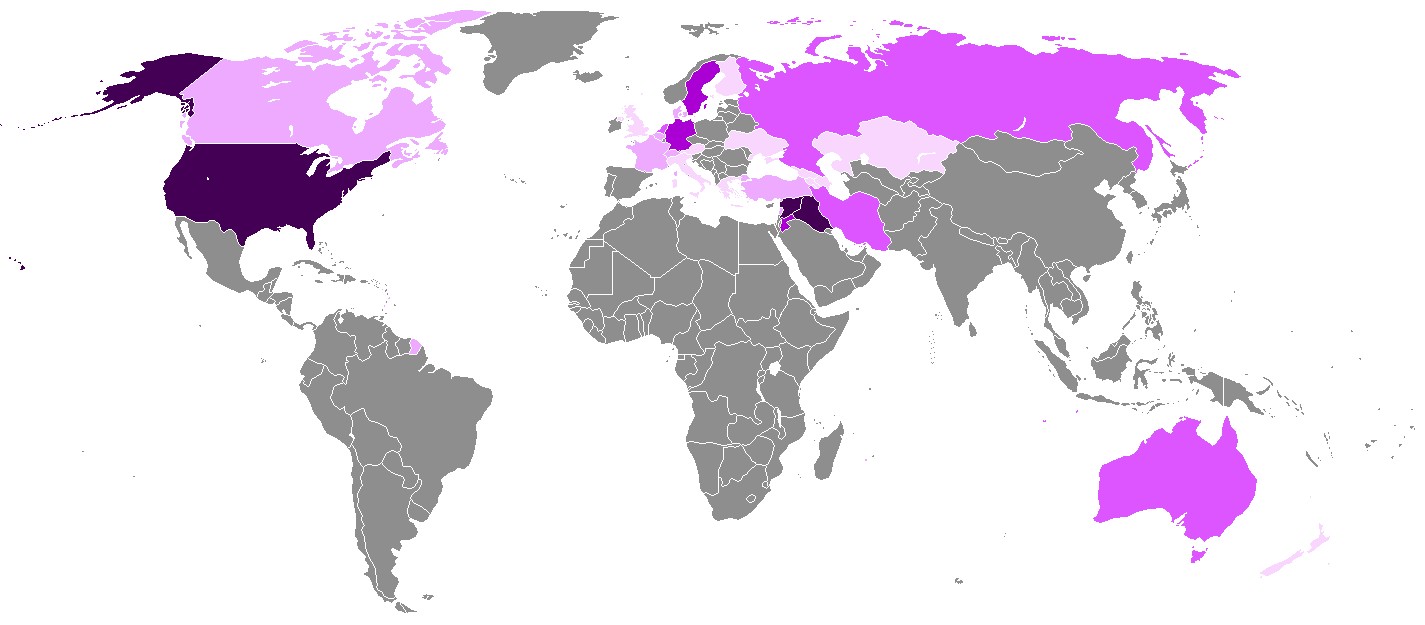 Assyrian world population more than 500,000 100,000 - 500,000 50,000 - 100,000 10,000 - 50,000 less than 10,000